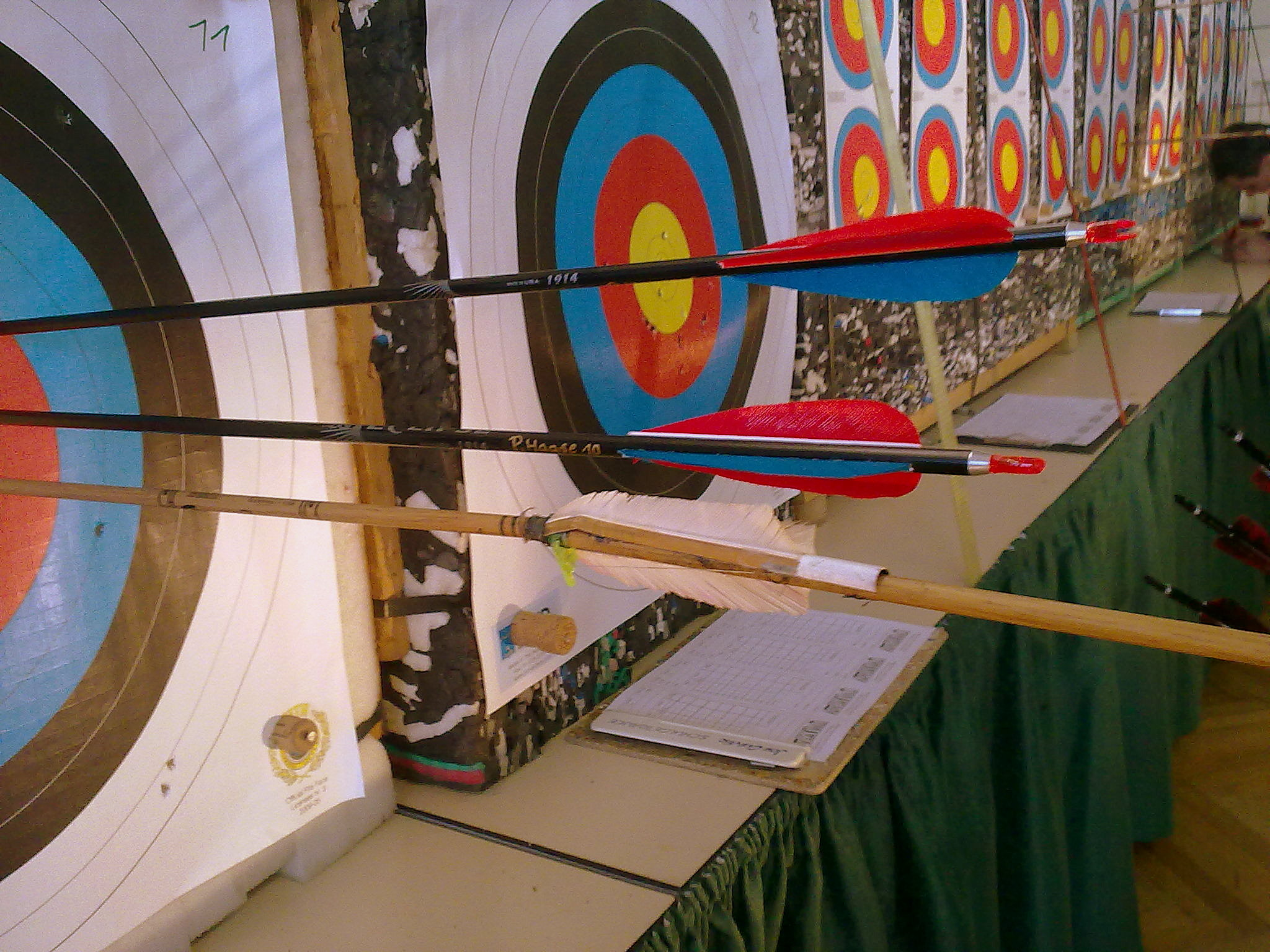 Archery Robin-Hood-Shot